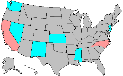 Summary of party change of U.S. house seats in the 1998 House election. Stripes indicate a tie between the gains of two or more parties. Legend: 6+ Democratic seat pickup 3-5 Democratic seat pickup 1-2 Democratic seat pickup 1-2 Republican seat pickup 3-5 Republican seat pickup 6+ Republican seat pickup Note: years ending in 2 may have inconsistent results due to redistricting.